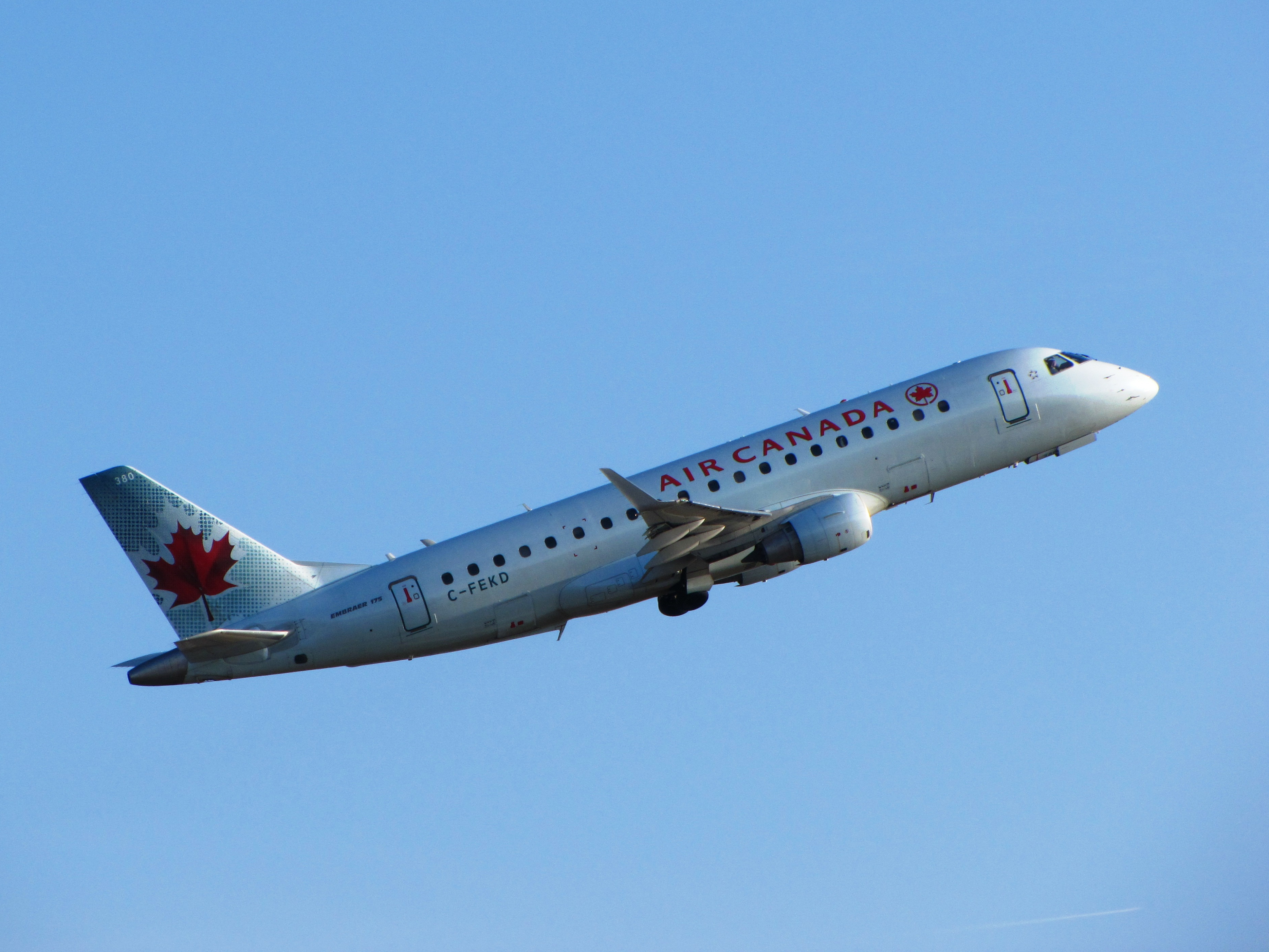 Air Canada Embraer 175 General Edward Lawrence Logan International Airport